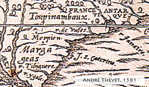 This image was copied from pt. The original description was: Detalhe mapa onde aparece o termo Morpion